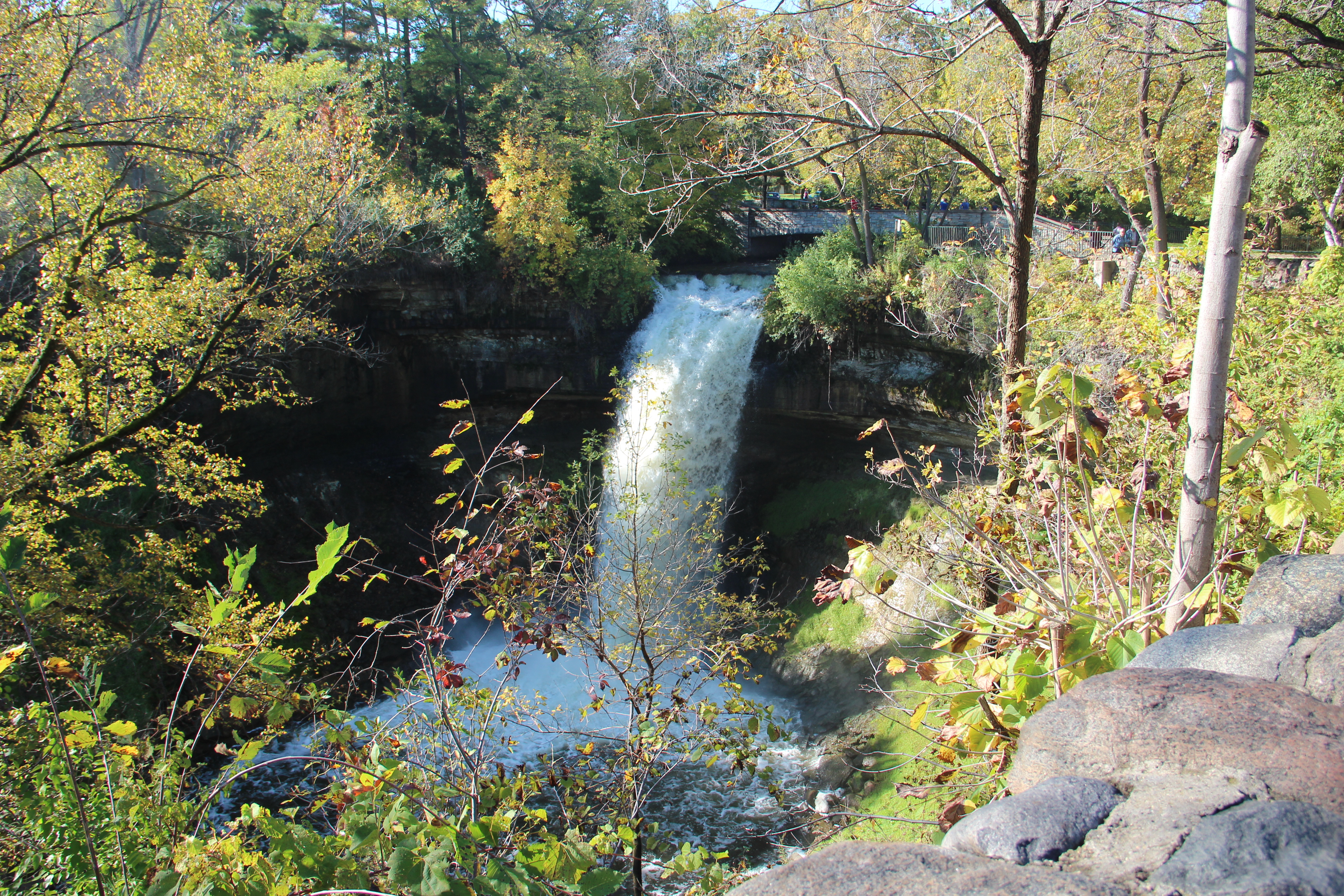 Minnehaha Park (Minneapolis)